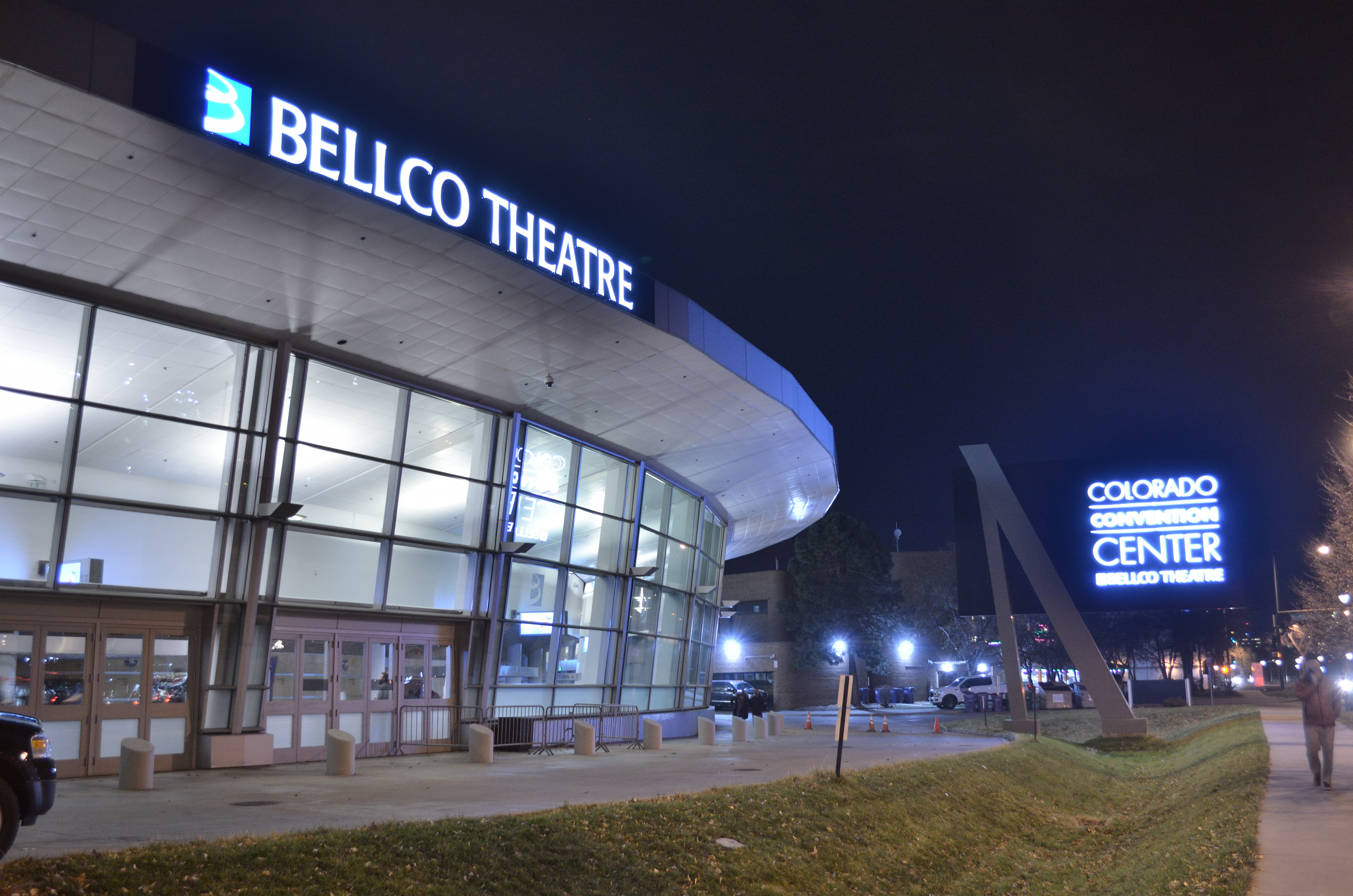 Bellco Theatre at the Colorado Convention Center